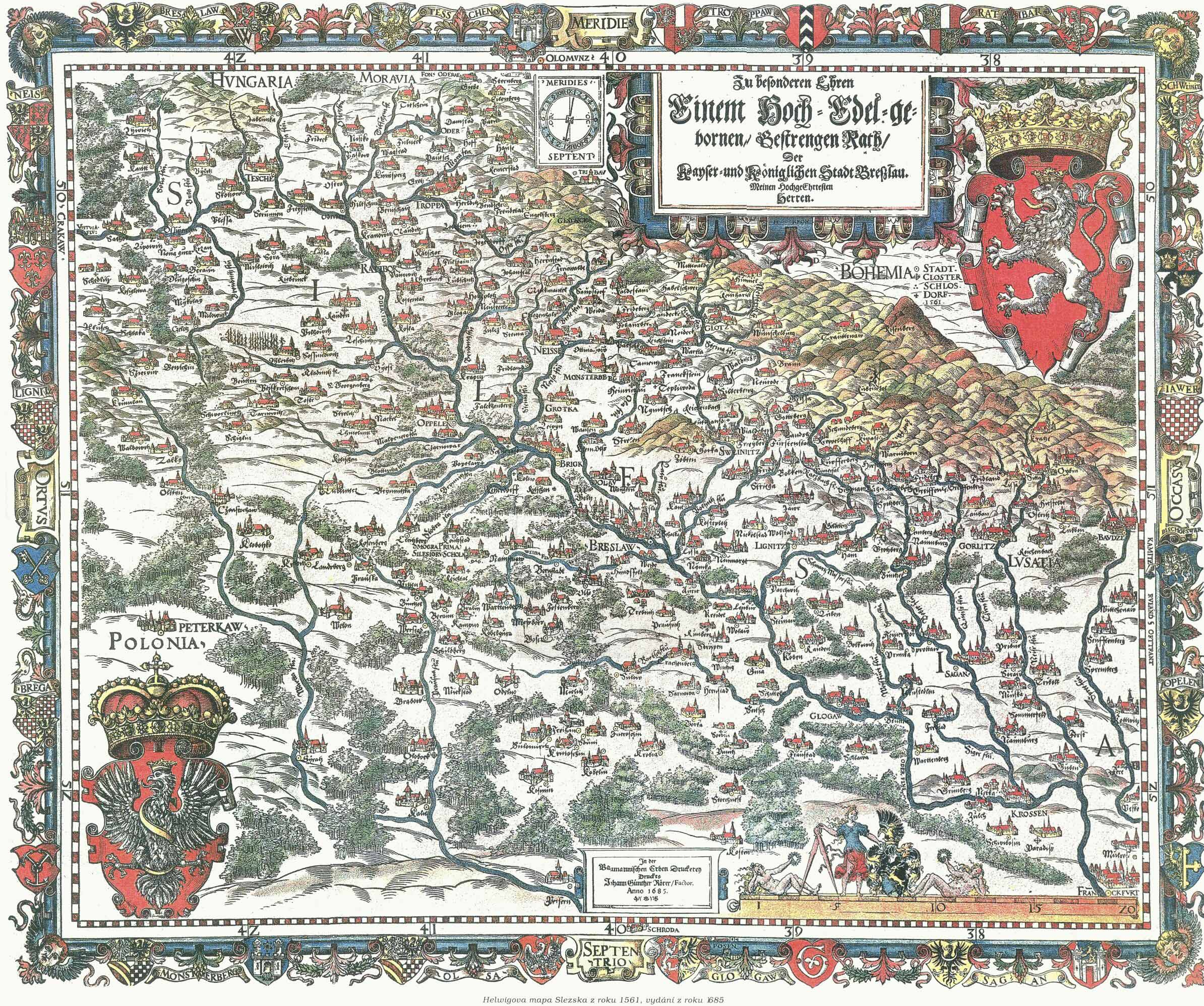 Map of Silesia 1561